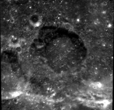 In the image above, crater Scobee is the central one, with Smith at the frame's left margin (west-southwest of Scobee).